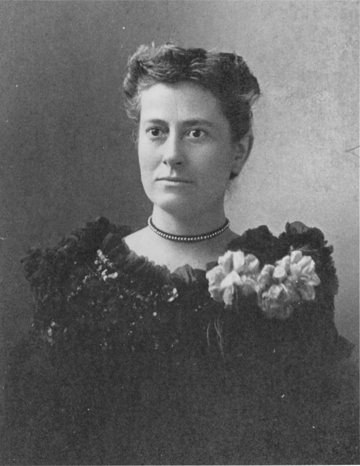 Williamina Paton Stevens Fleming (1857-1911), circa 1890s. (Courtesy Curator of Astronomical Photographs at Harvard College Observatory.)